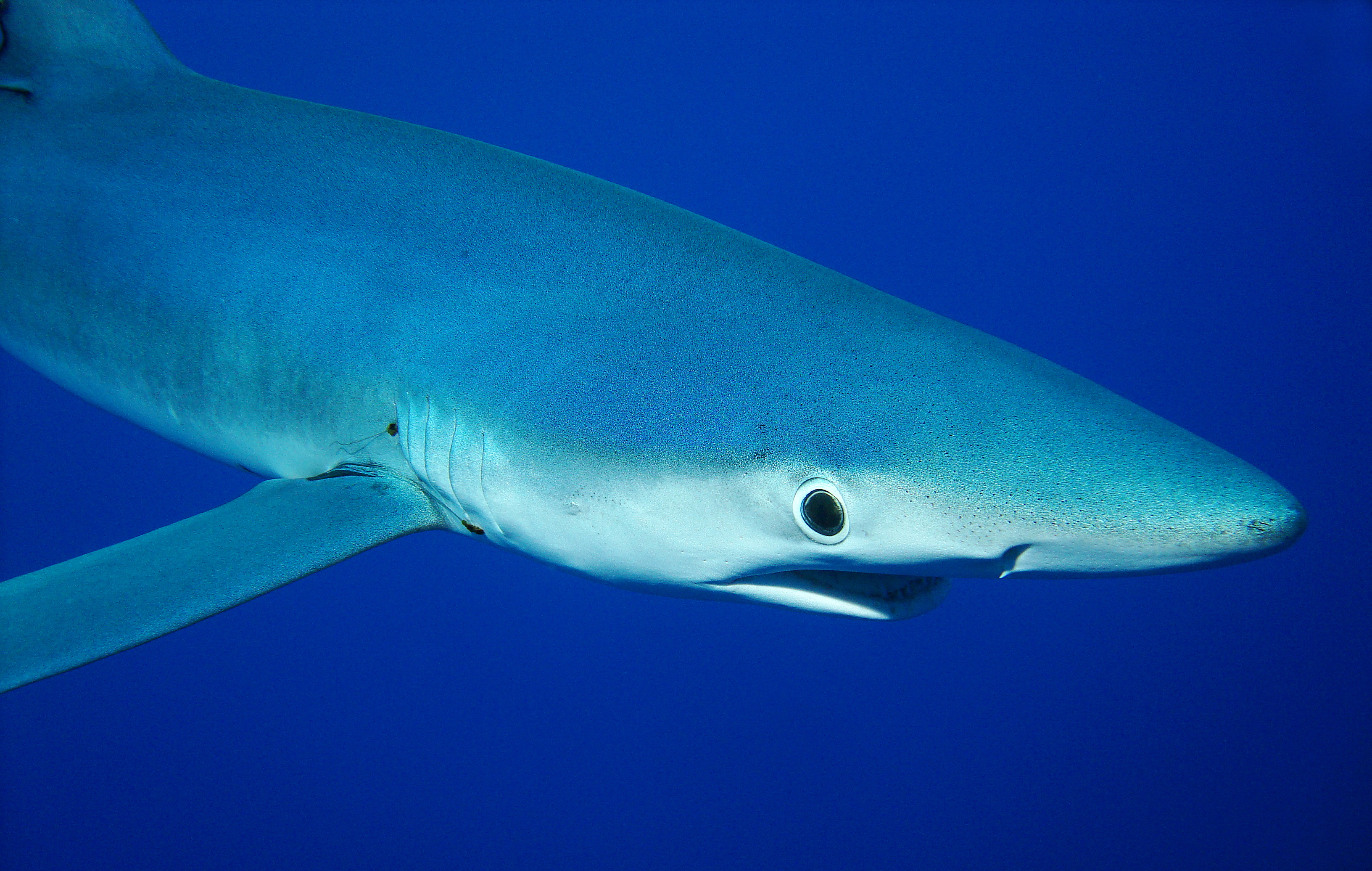 Close view of a blue shark, Faial, Azores